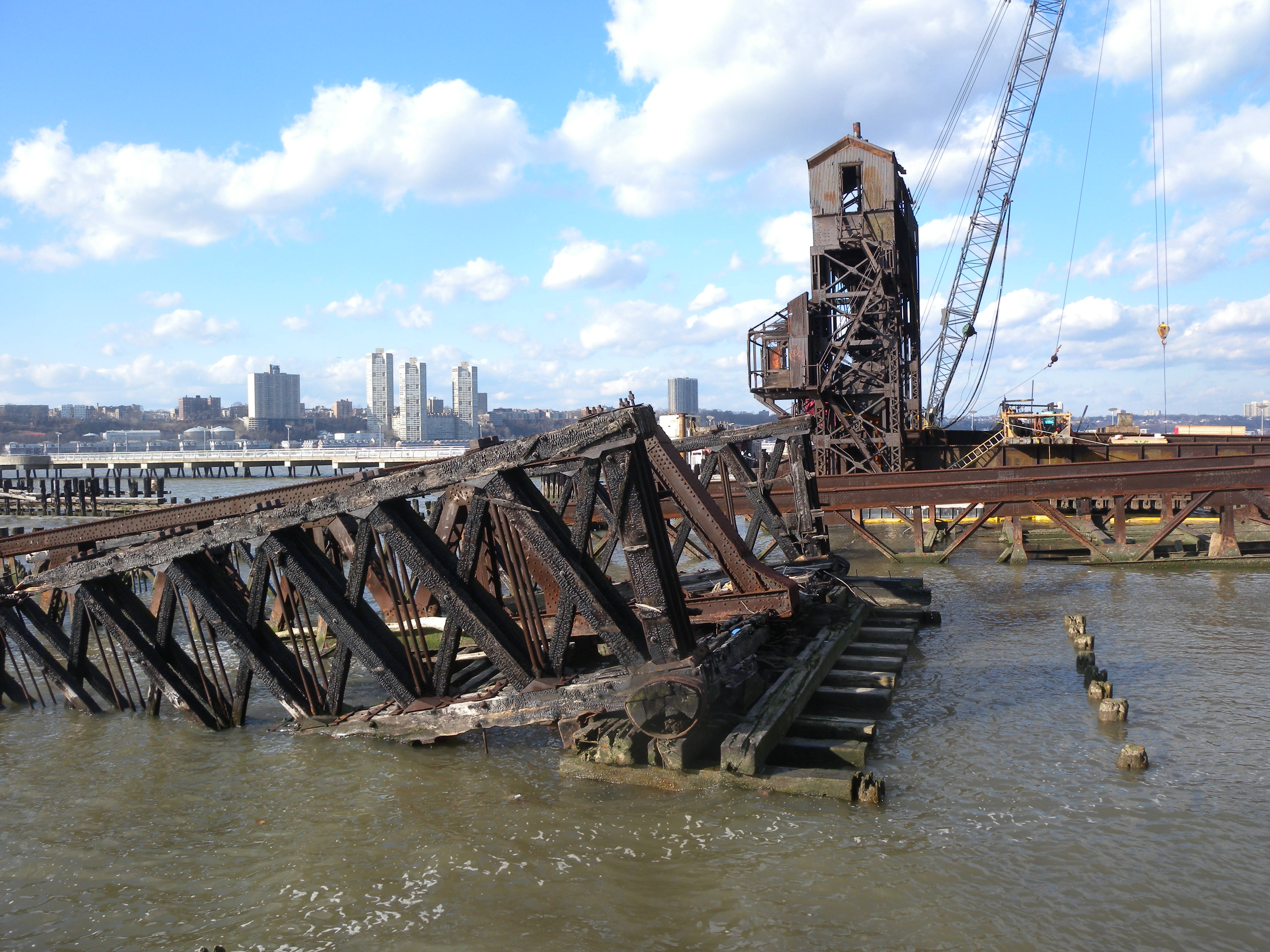 Looking north as ruins sink into the Hudson on a mostly sunny midday.